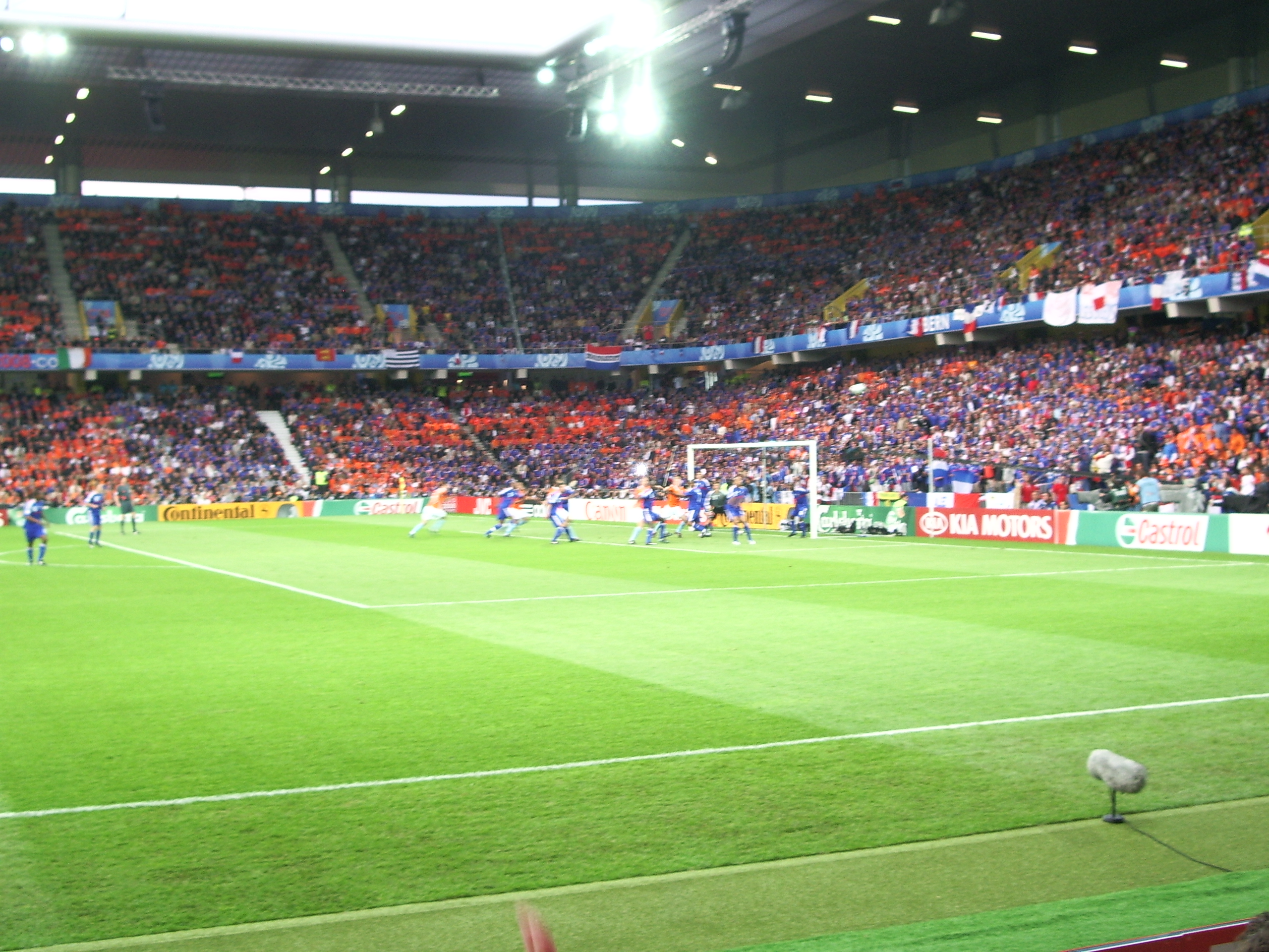 First goal of Holland by Kuijt scoring 1-0 during Euro2008 match Holland - France. Alas quality is not that good.